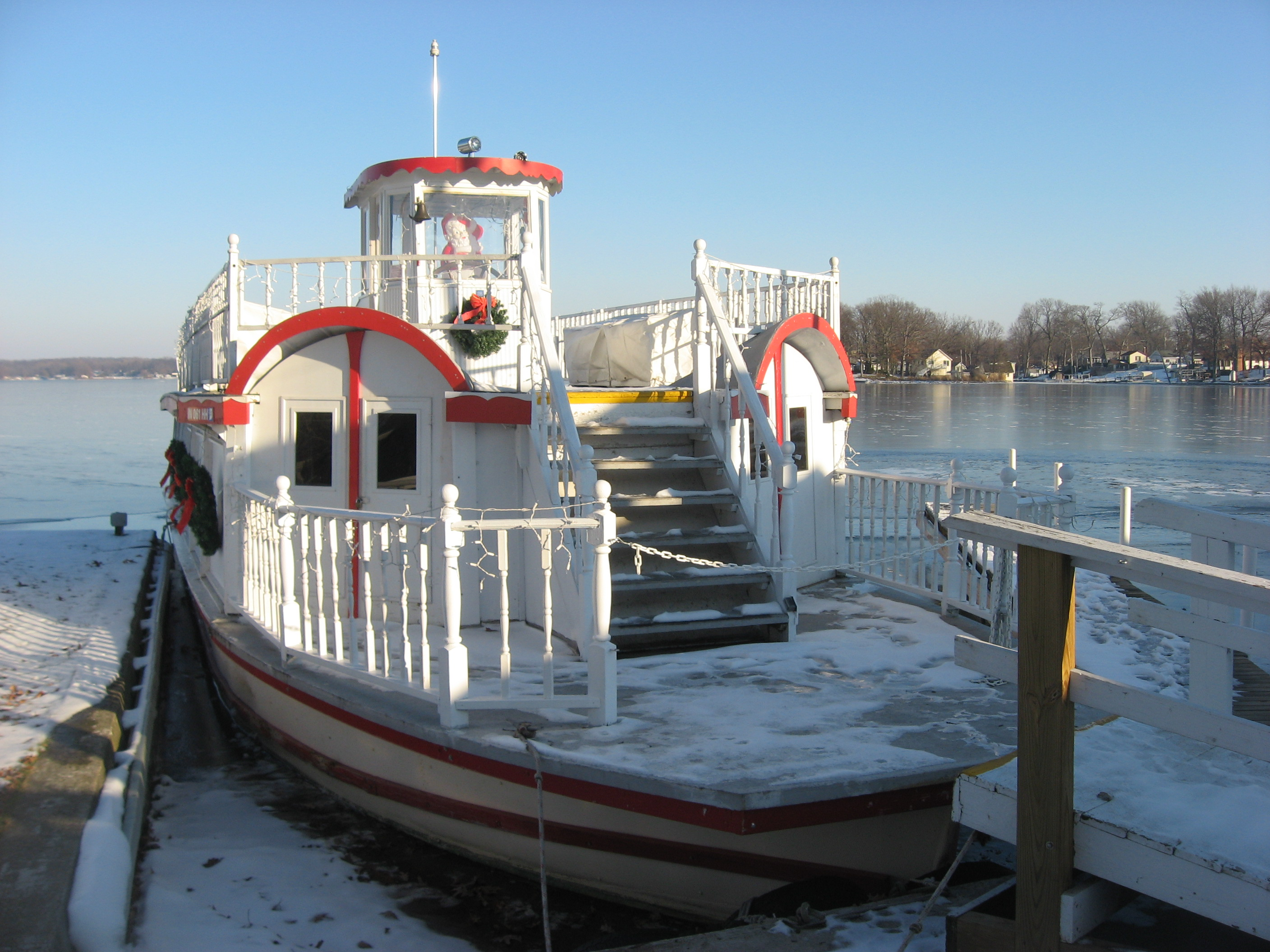 Bow of Dixie, a diesel-powered sternwheeler on Webster Lake in North Webster, Indiana, United States. Built in 1929, it is listed on the National Register of Historic Places. The photo is taken soon after Christmas; note the Santa Claus figurine at the bridge.